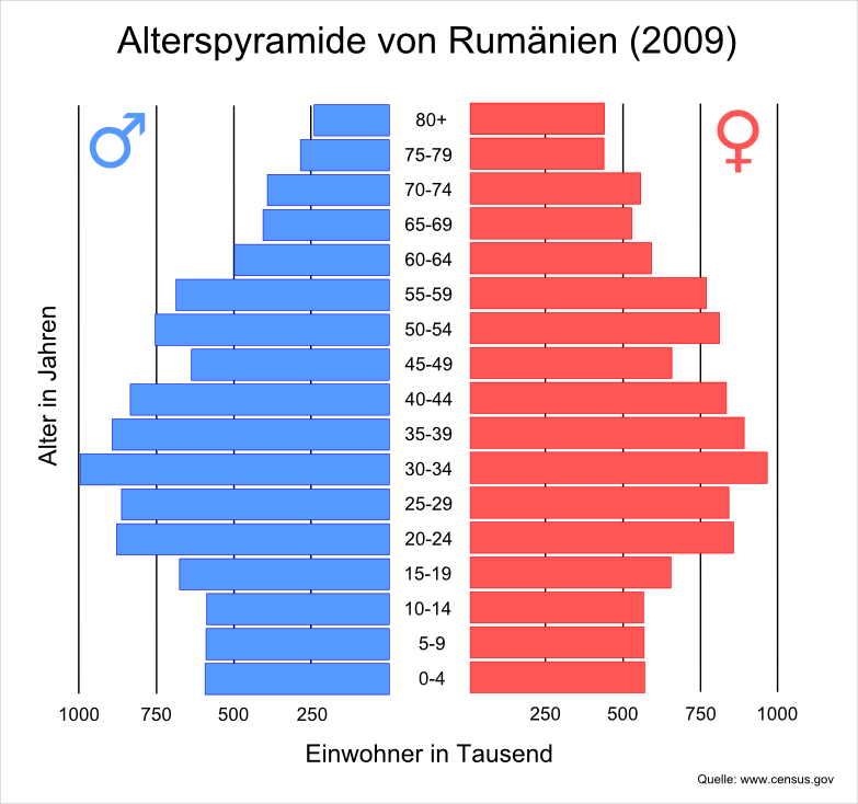 Pyramid of Romanias population